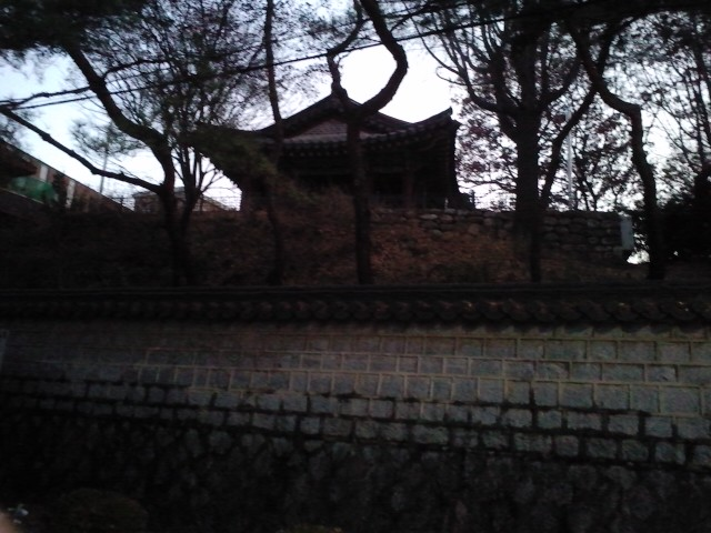 Injo byeolseo Ugibi